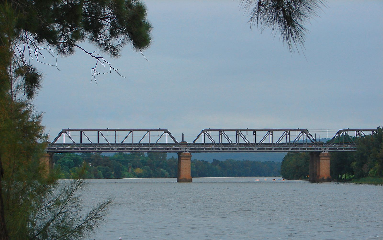 Penrith, Australie: le pont Victoria sur la Nepean river